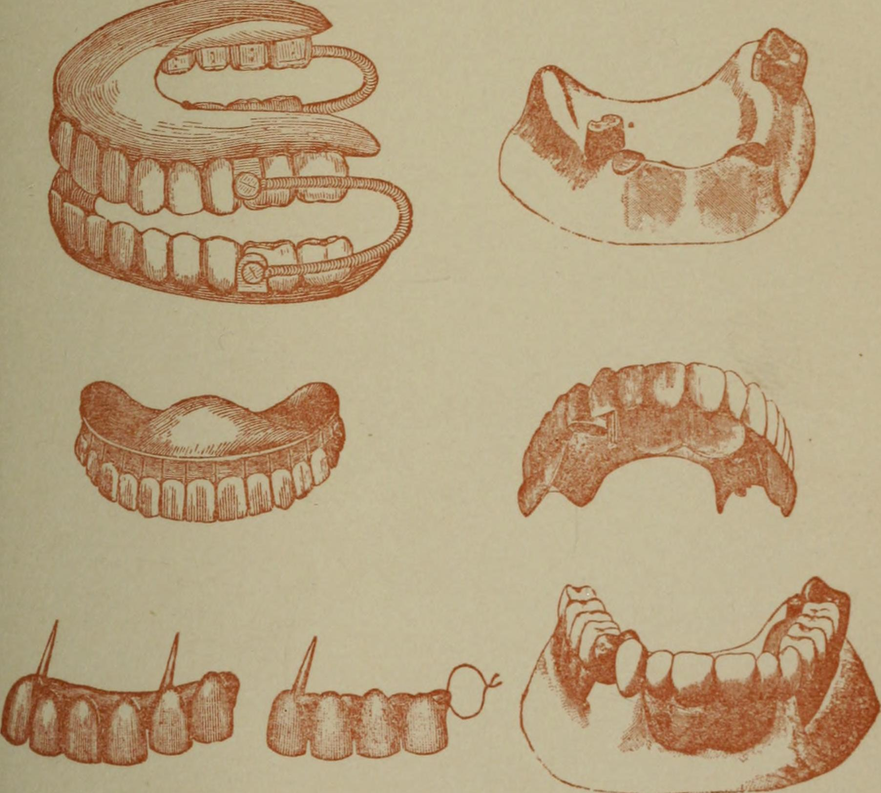 Title: The rise, fall and revival of dental prosthesis Year: 1893 (1890s) Authors: Cigrand, B. J. (Bernard John), 1866-1932 Subjects: Dentures Publisher: Chicago : Periodical Publishing Co. Text Appearing Before Image: ' Text Appearing After Image: Specimens of Medieval Deqtal Art. OF DENTAL PROSTHESIS. 139 without artificial teeth, I advised her to haveseveral sets of teeth at the same time, so that shemight change them often after having washed andlet them dry. She did so, and her health becamere-established in the course of some months. Butas the teeth of this kind required to be renewedfrequently they occasioned a great expense, andnotwithstanding their frequent renewal theyalways produced a bad smell. I was induced fromthat time to reflect on the possibility and meansof making teeth and sets of teeth of durable andincorruptible materials. I examined almost all thesubstances of the mineral kingdom, and at lengthcomposed a paste which, when it was baked (por-celain) had every desirable advantage. Now as a matter of fact, porcelain teeth wereinvented by an apothecary of St. Germain, Ducha-teau^ by name. He himselfwore an artificial dentureof ivory and natural teeth, but found they rapidlybecame tainted by the various disagreea